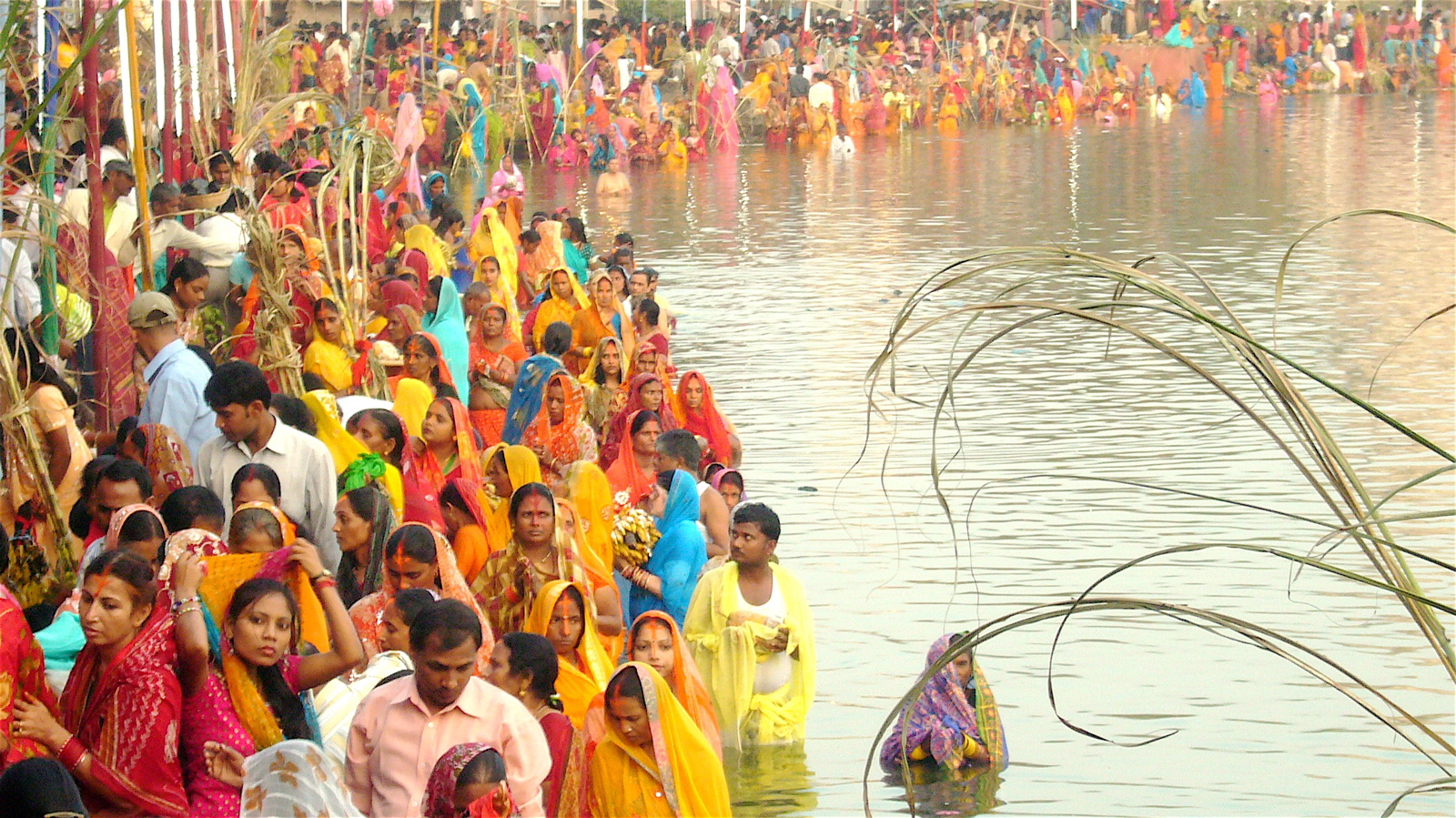 Devotees of the Festival Chhath Parva in Janakpur, Nepal